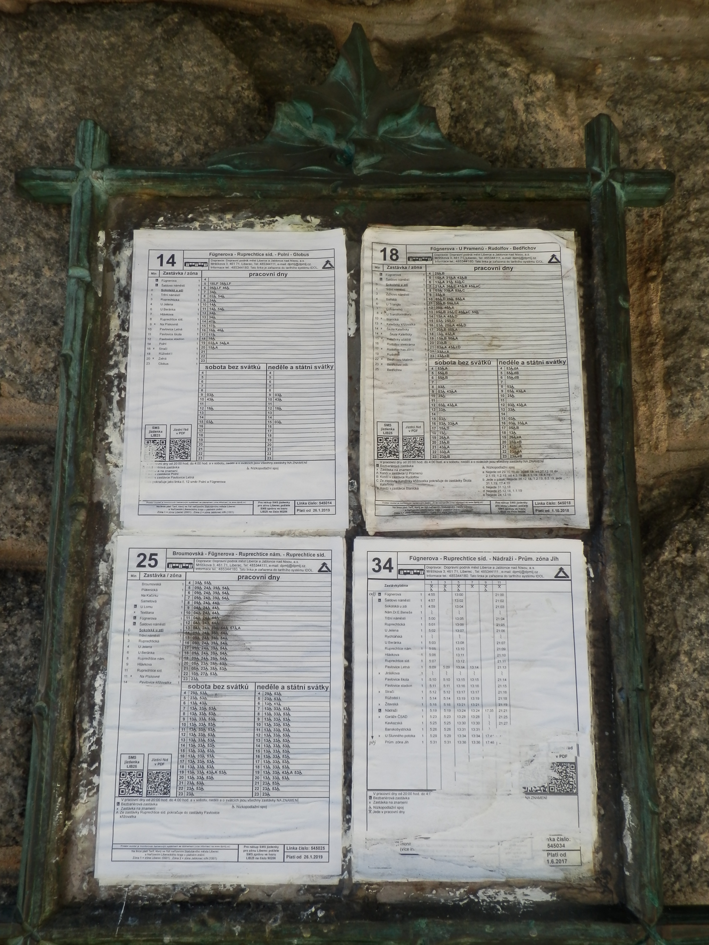 The feast of Giants Stop Liberec Czech Republic 3